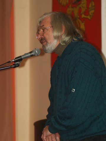 Viktor Vladimirovich Sergienko